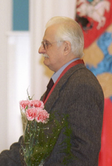 Soviet / Russian film director Marlen Khutsiev derivative work (cropped) from File:Vladimir_Putin_11_April_2001-2.jpg